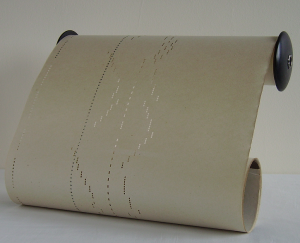 A piano roll used in a mechanical piano